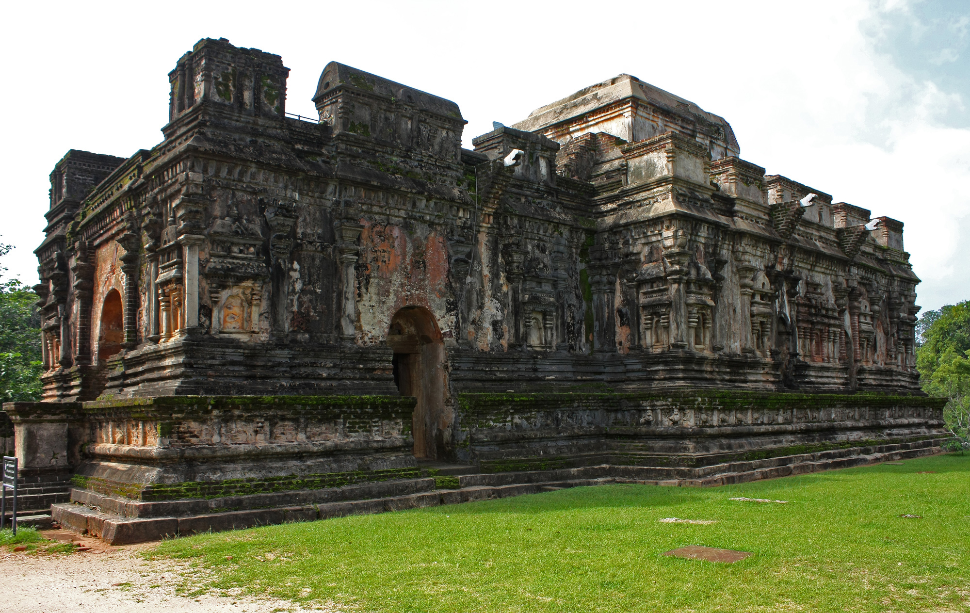 A building with a Southern Indian (Dravidian) Architecture style in Polonnaruwa